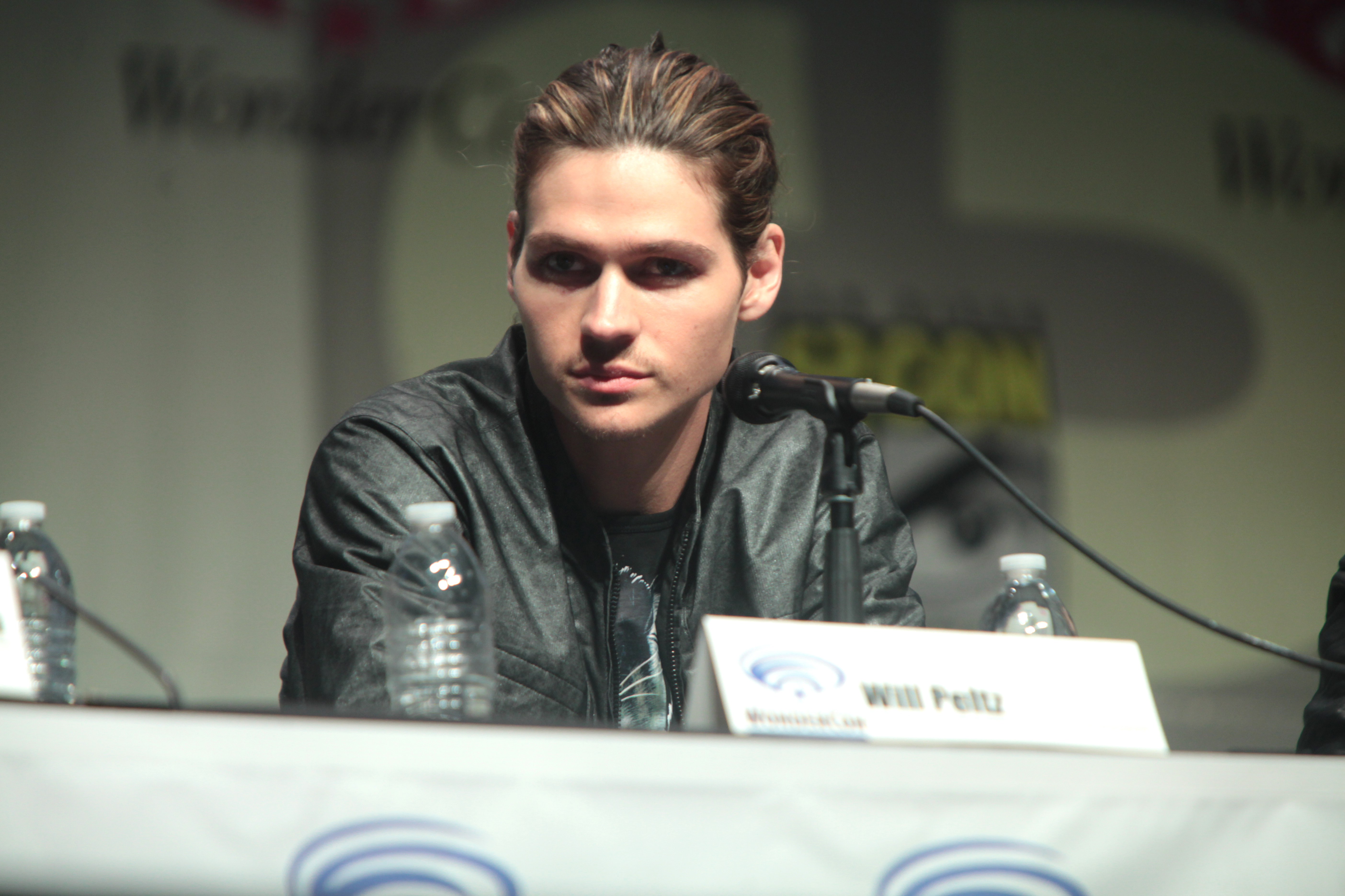 Will Peltz speaking at the 2015 Wondercon, for "Unfriended", at the Anaheim Convention Center in Anaheim, California.